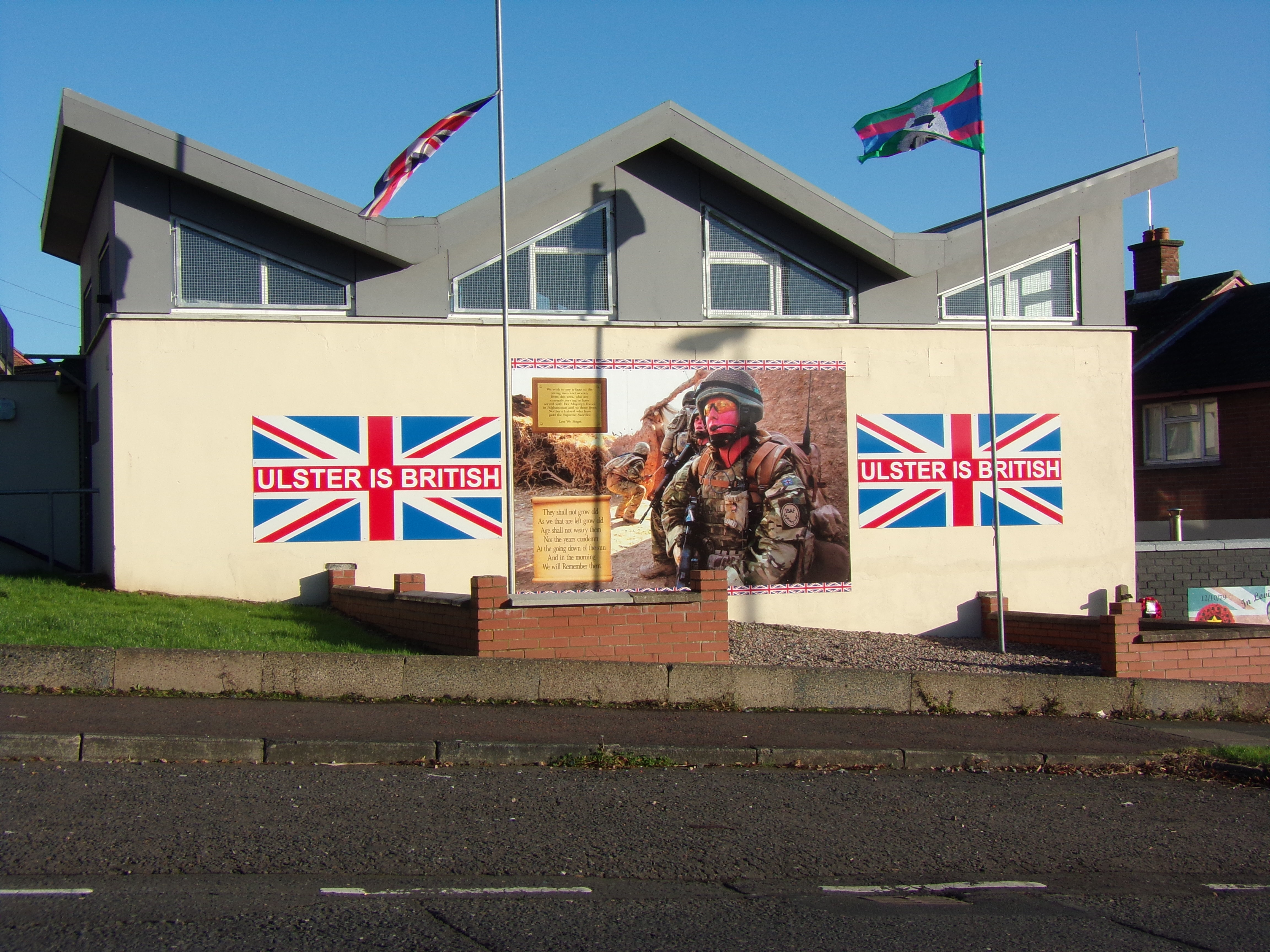 A mural located on the Antiville Road, Larne showing supporting for the RIR regiment of the British Army.The Union flag and RIR flag are flying on poles beside the mural.